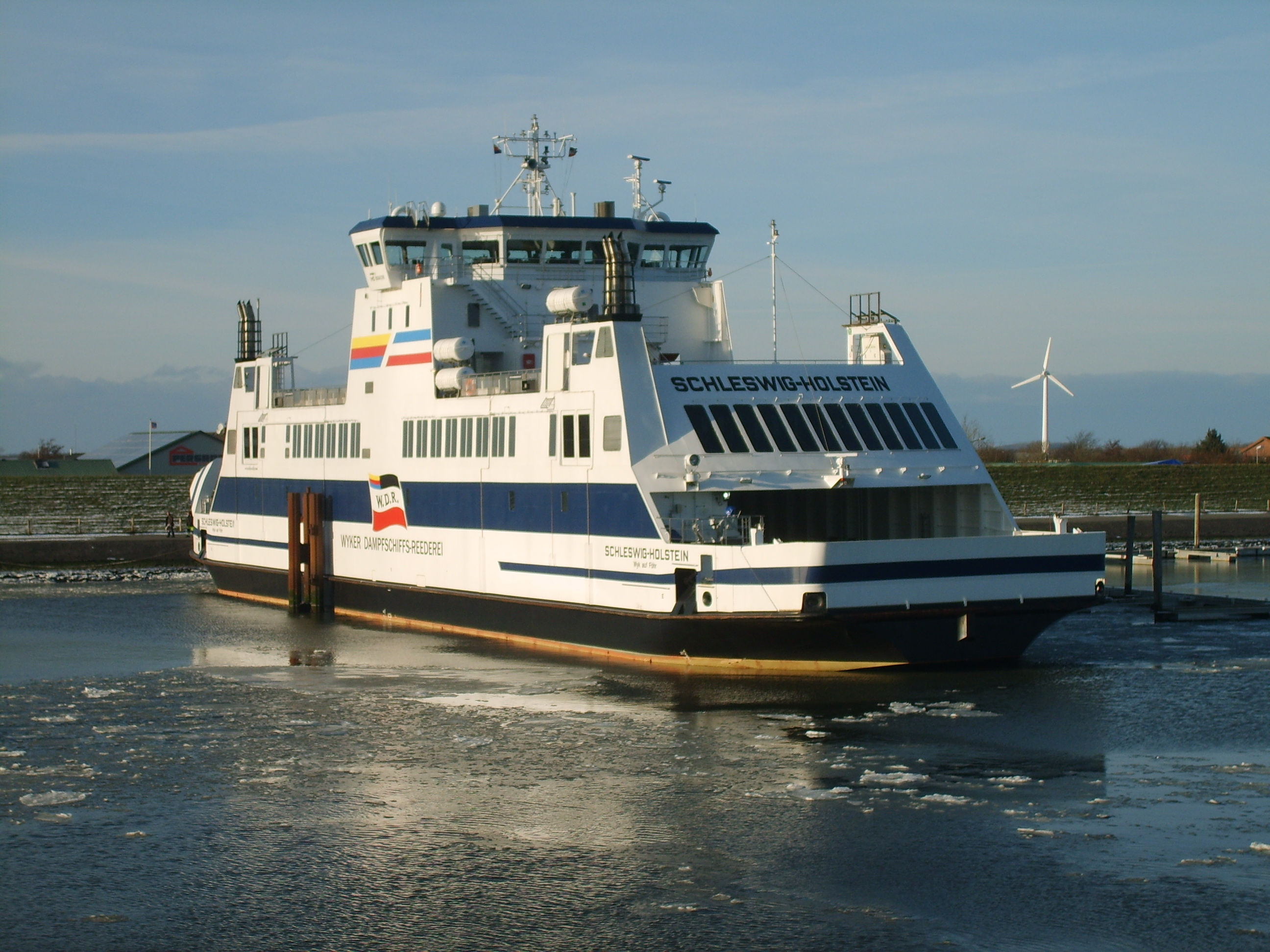 MV Schleswig-Holstein